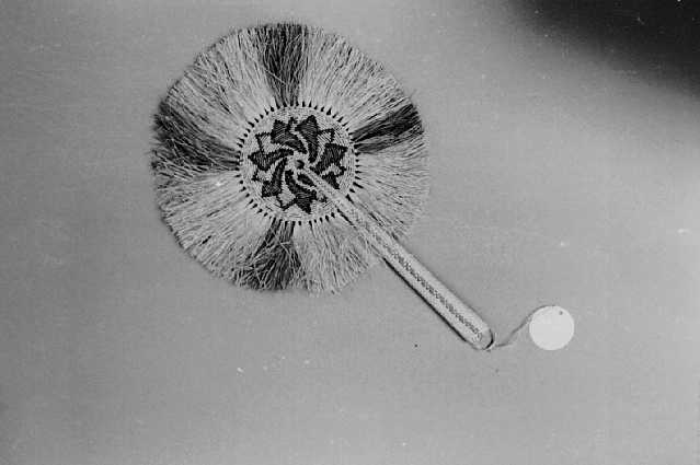 Kosraean fan